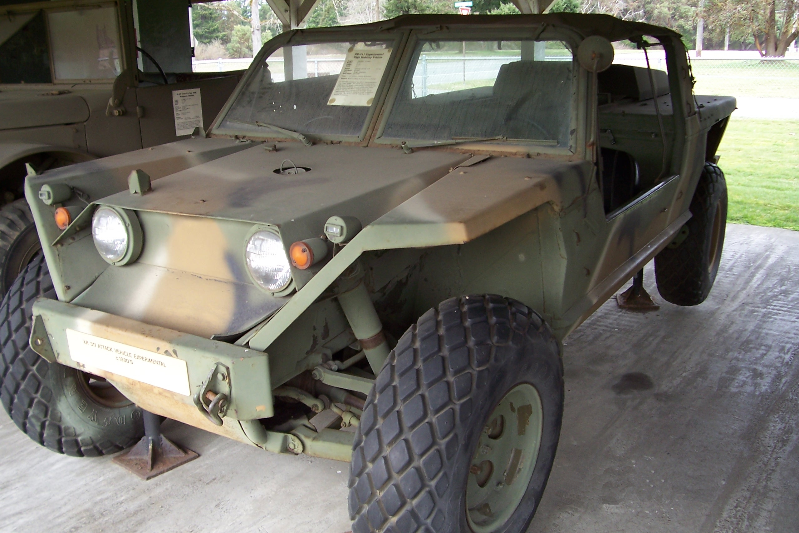 Experimental Hummer from the 80's.